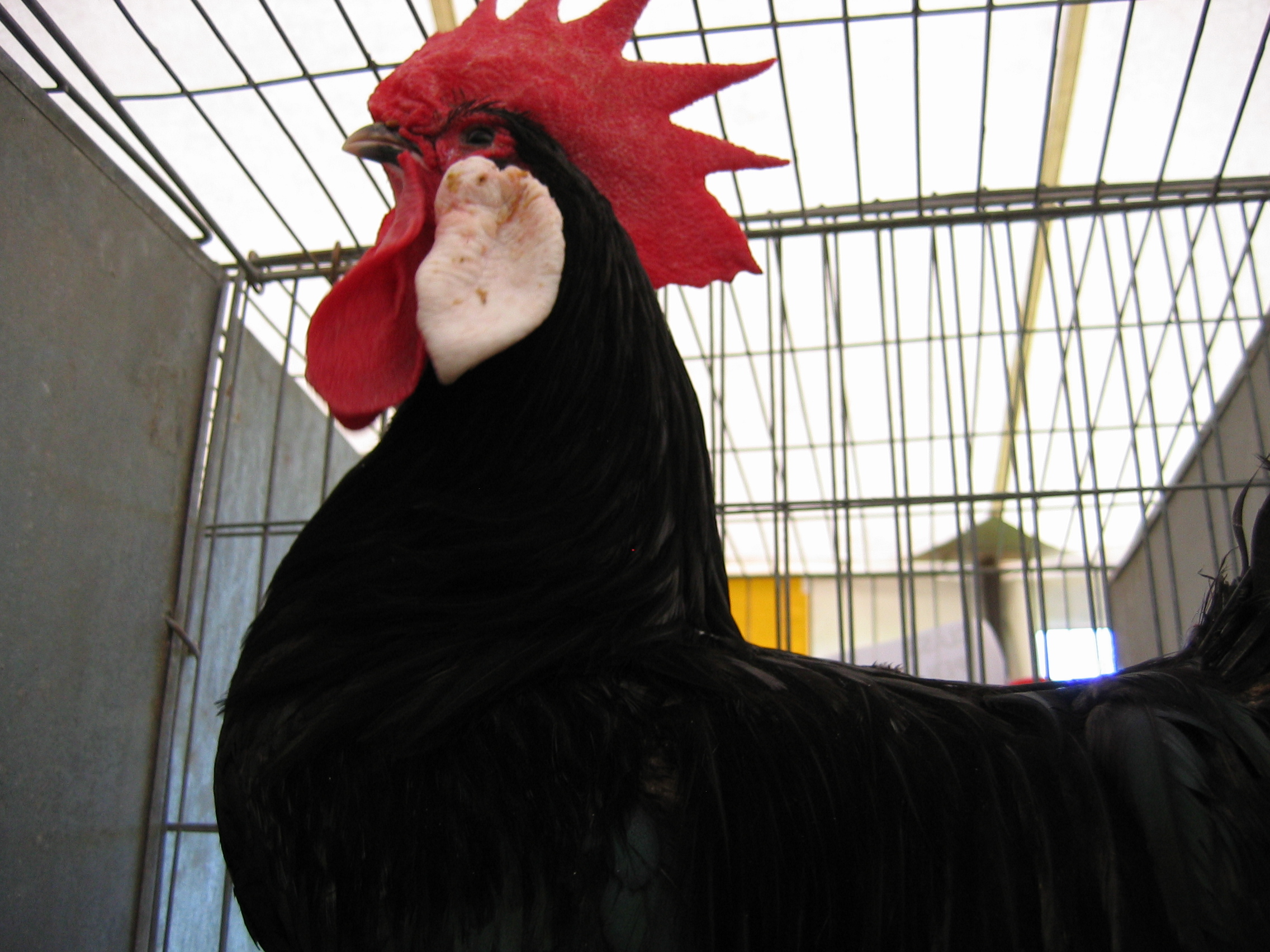 A Minorca breed rooster at a Scottish poultry show.